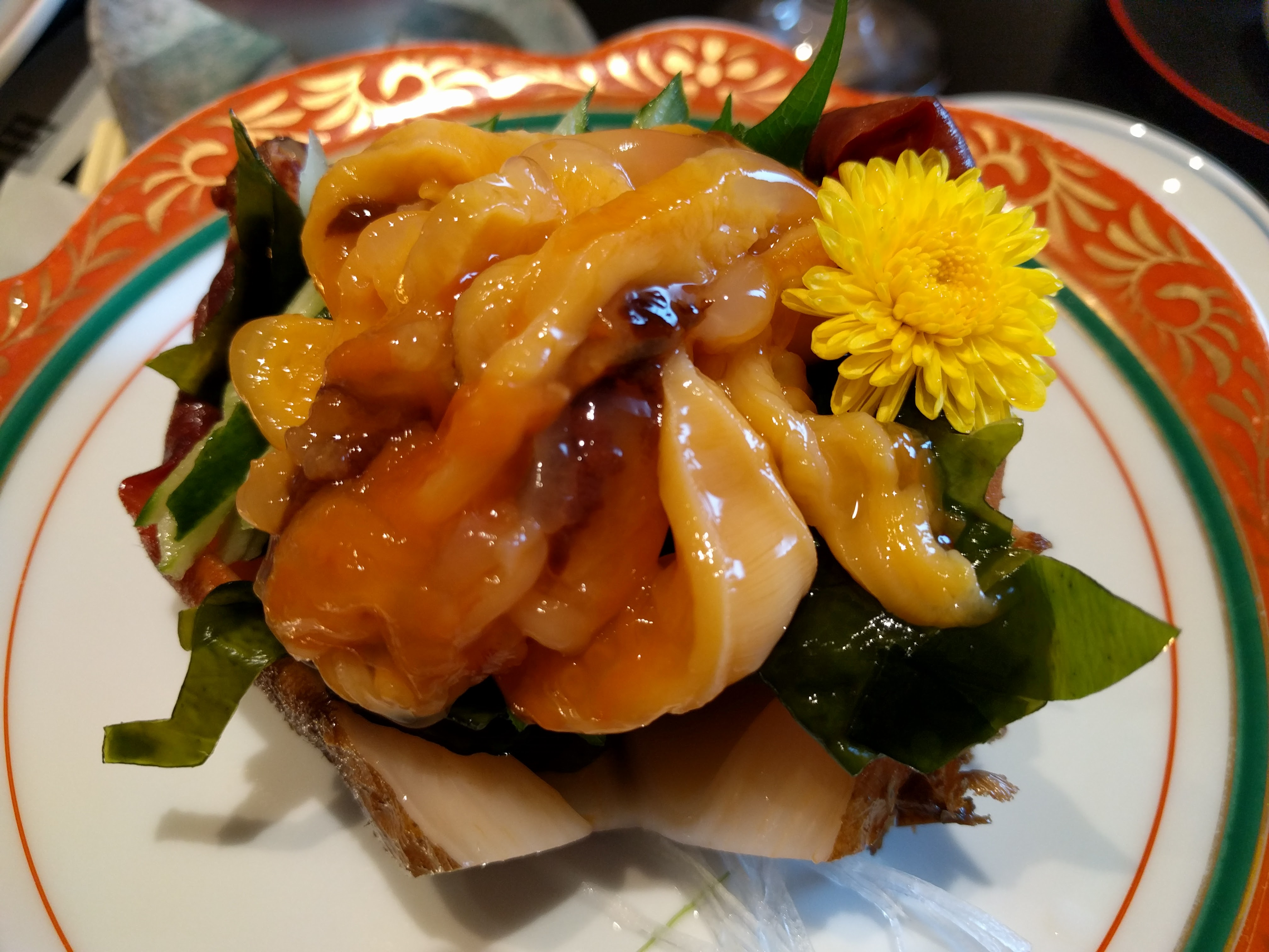 Sea pineapple (Halocynthia rorentzi, Jp. hoya) served as sashimi in its own shell at Kanda Sushi, Ichikawa, Chiba, Japan.